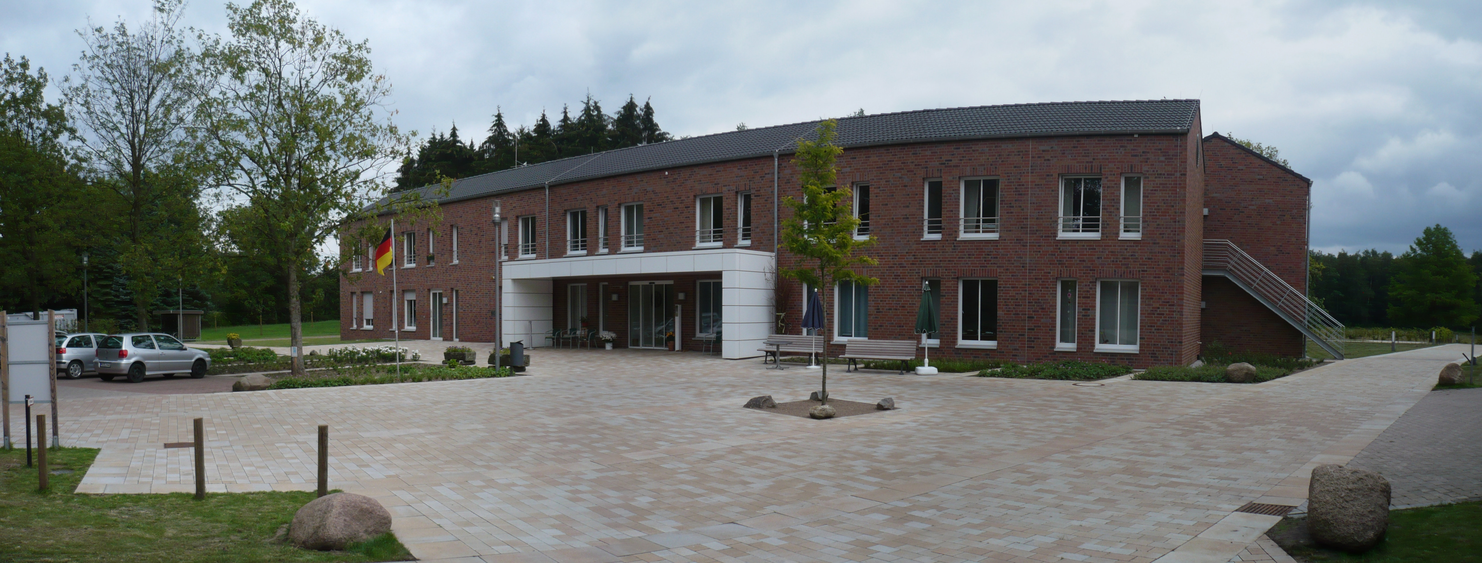 Haus Heidhorn - new building home for elderly (2010)